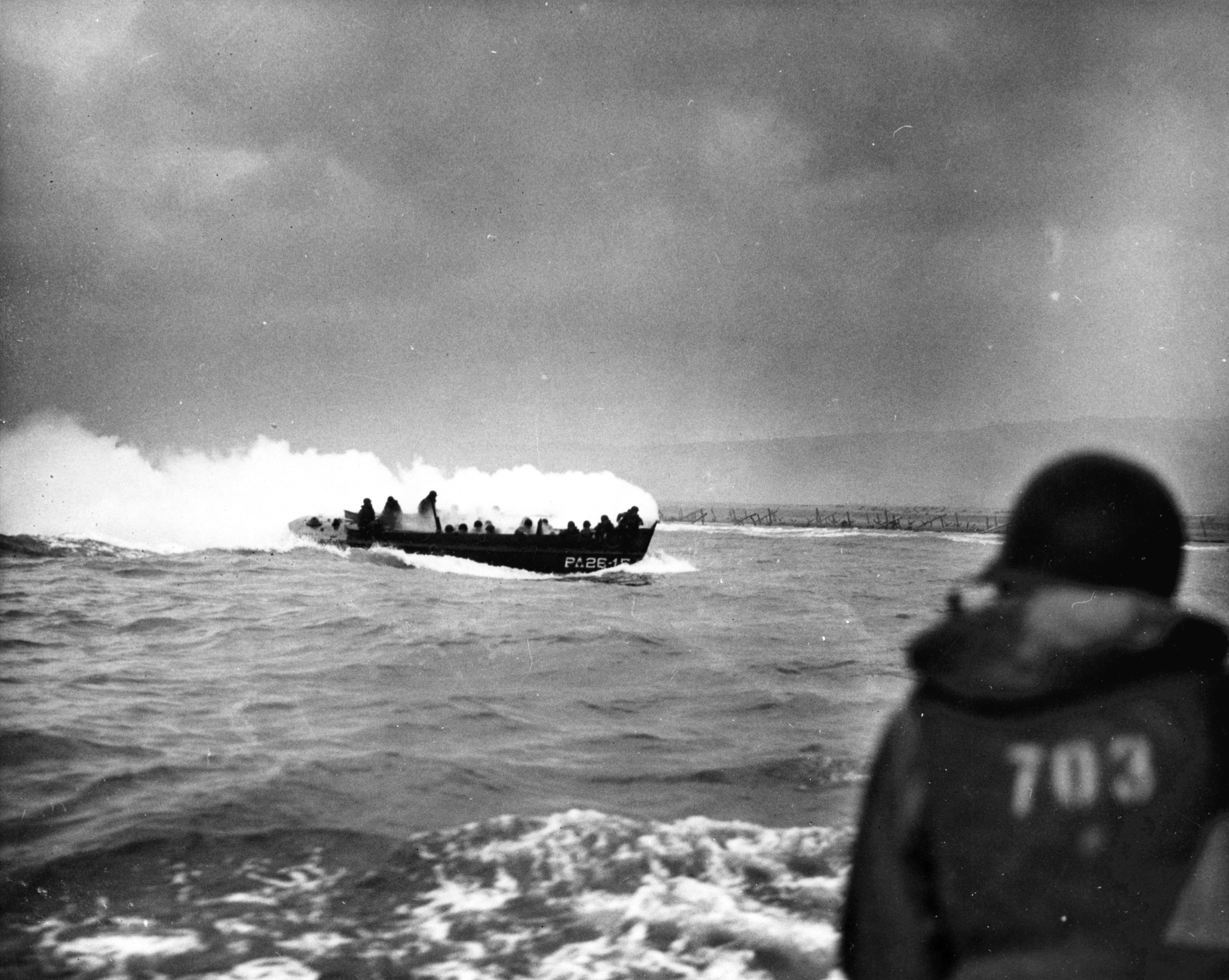 A U.S. Navy LCVP landing craft from USS Samuel Chase (APA-26) approaches "Omaha" Beach on "D-Day", 6 June 1944. The boat is smoking from a fire that resulted when a German machine gun bullet hit a hand grenade. After discharging his load of troops the boat's coxwain, Coastguardsman Delba L. Nivens of Amarillo, Texas, assisted by his engineman and bowman, put out the fire and returned to their transport. Note the beach obstacles just ahead of the boat.